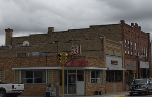 NRHP-listed Union Block (the right-most storefront) in Mayville, North Dakota.